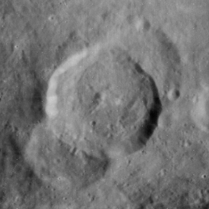 Burckhardt crater, on the moon. Brightness and contrast adjusted from original.